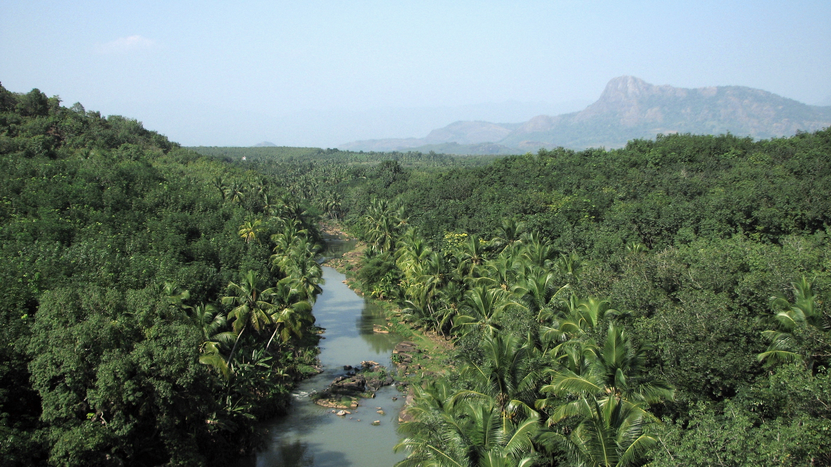 self-made image ; Author's Name : infocaster